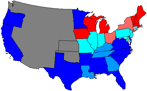 Summary of party control of U.S. house seats in the 35th United States Congress following election. Stripes indicate a tie between two or more parties. Legend: 80.1-100% Democratic seat majority 60.1-80% Democratic seat majority 60% or less Democratic seat plurality 60% or less Republican seat plurality 60.1-80% Republican seat majority 80.1-100% Republican seat majority 60% or less American seat plurality 60.1-80% American seat majority 80.1-100% American seat majority